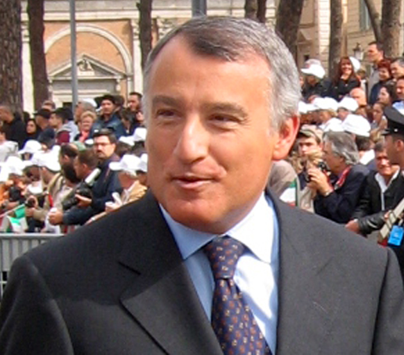 Photo of Army Parade in Rome, 2 june 2006, Festa della Repubblica Italiana. Piero Marrazzo, tv showman and president of Regione Lazio